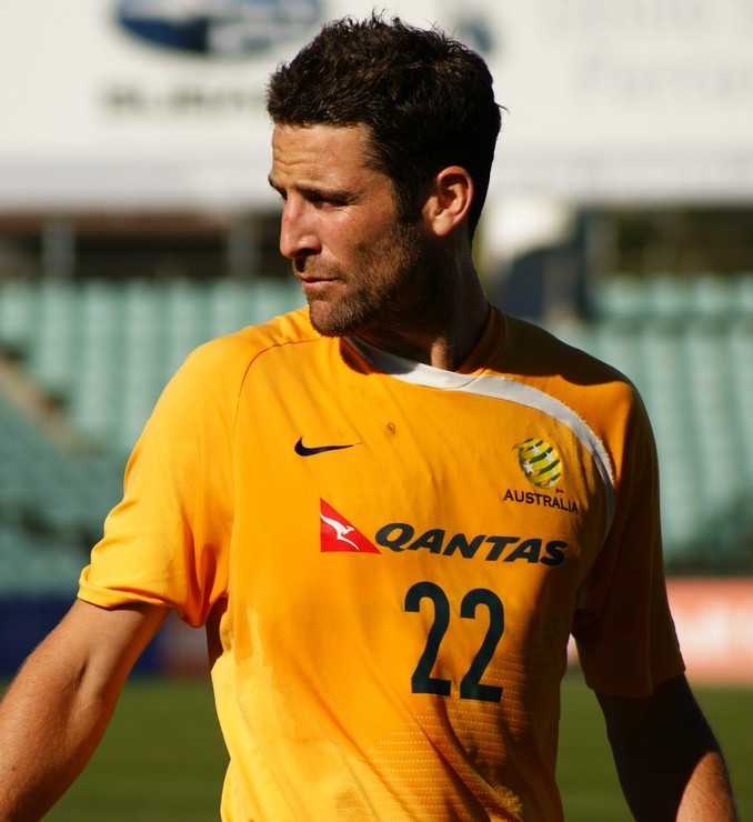 At Socceroos training.